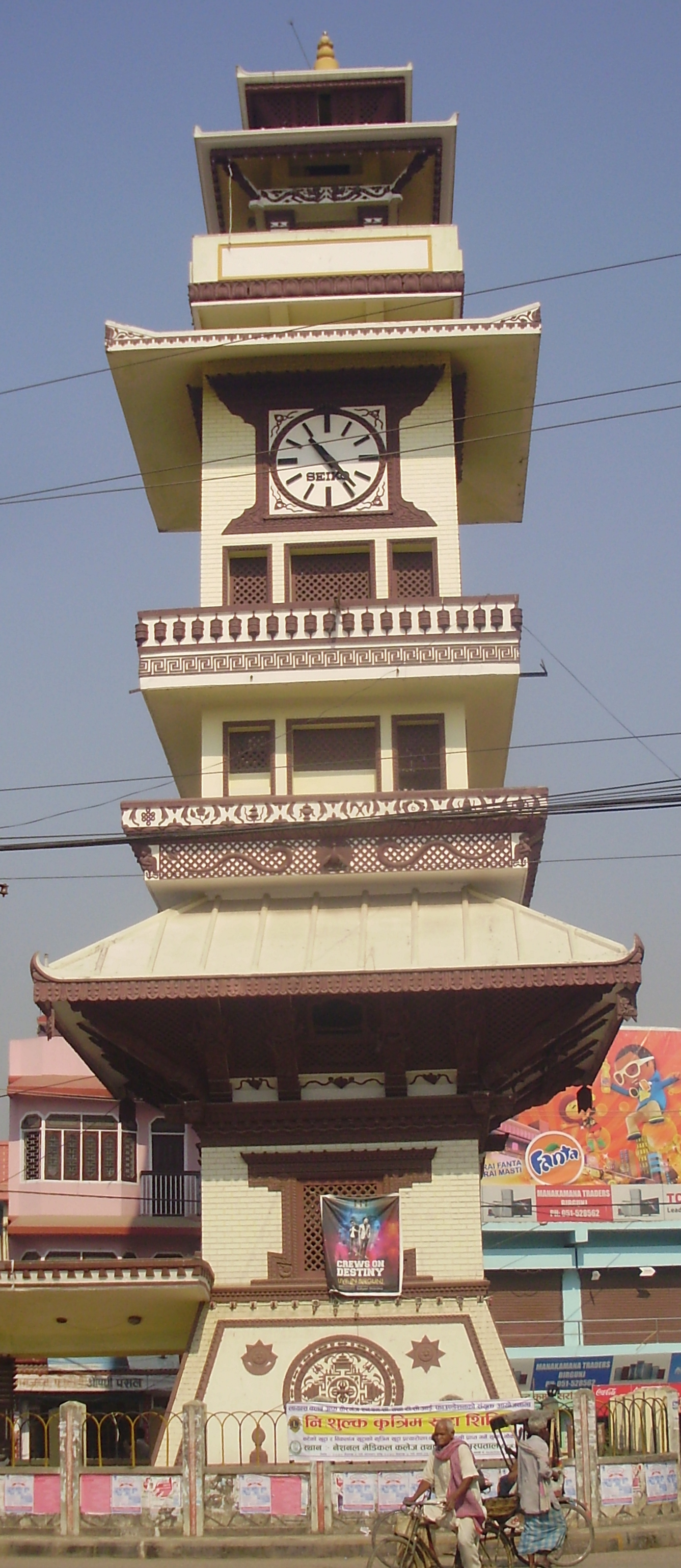 Clock tower of Birgunj, Nepal